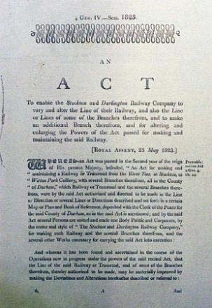 Act of Parliament from May 23, 1823 concerning the Stockton and Darlington Railway